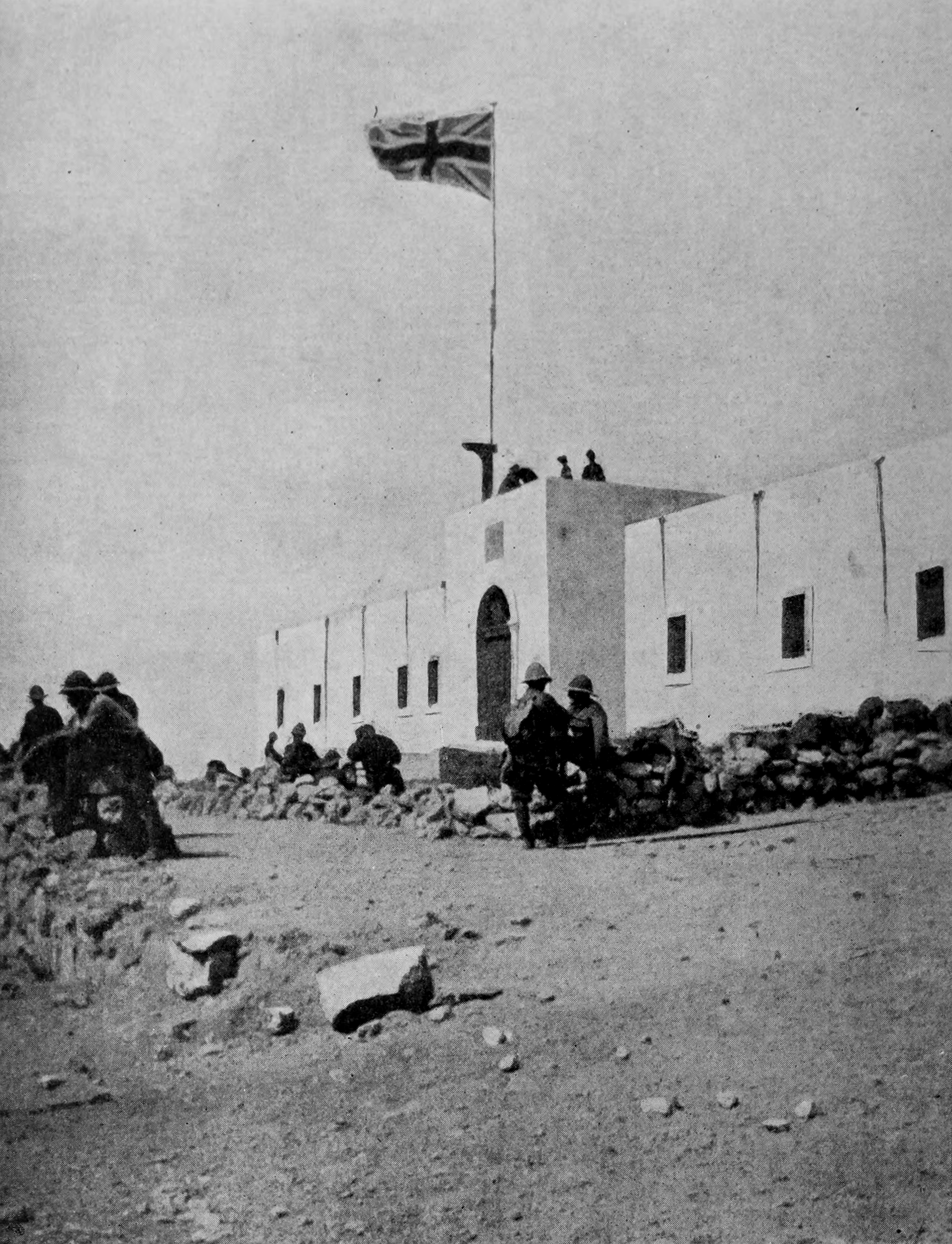 The Fort at Sollum, occupied by British force under Major-General William Peyton on 14th March 1916